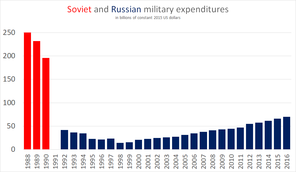 Soviet and Russian military expenditures in constant 2015 dollars Data source: SIPRI Military Expenditure Database